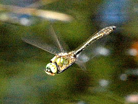 Picture taken in Commanster, Belgian High Ardennes . Species: Cordulia aenea